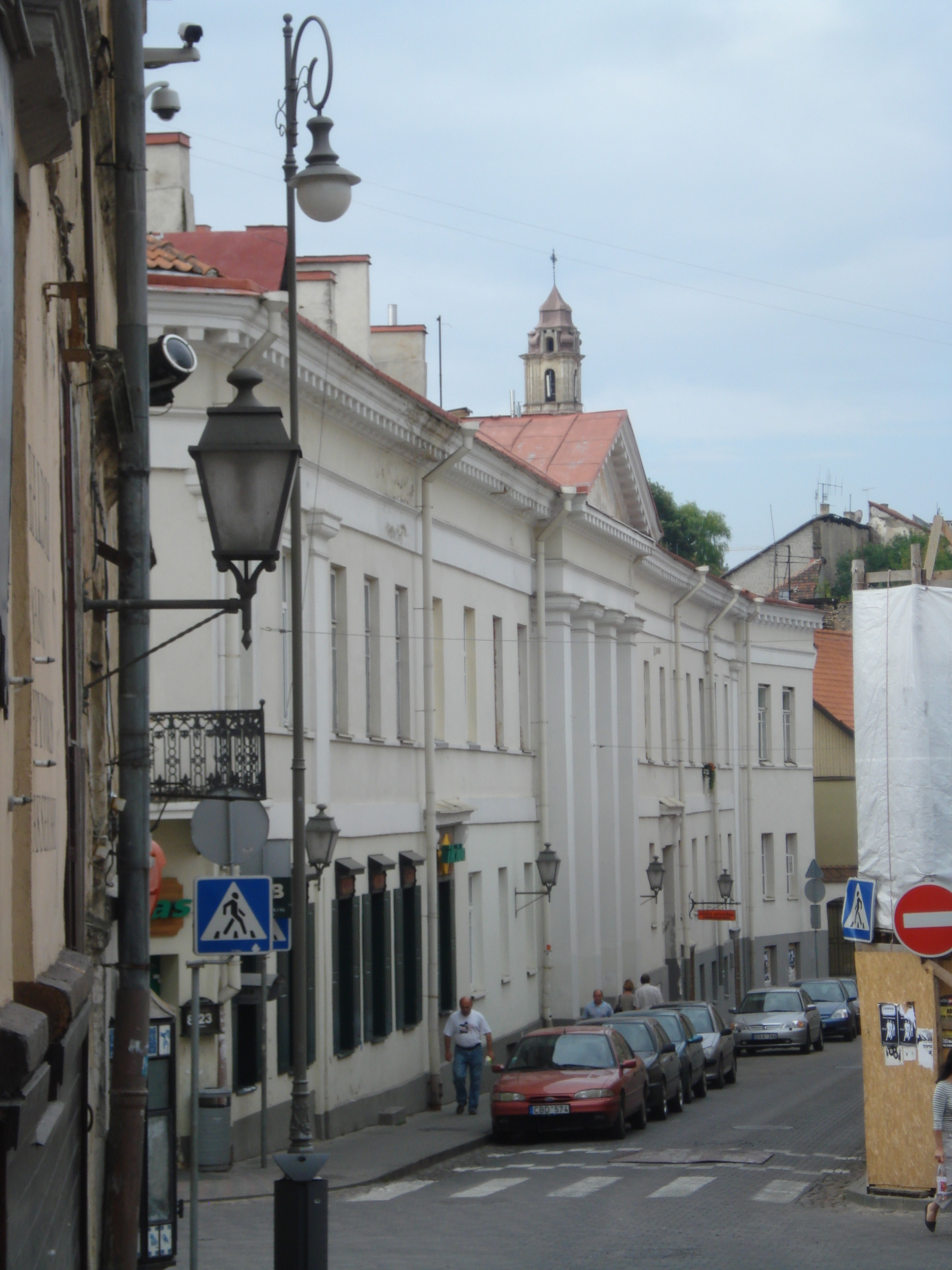 Honestich Palace in Vilnius (Užupio street)